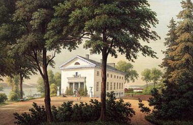 Almare-Stäkets gård